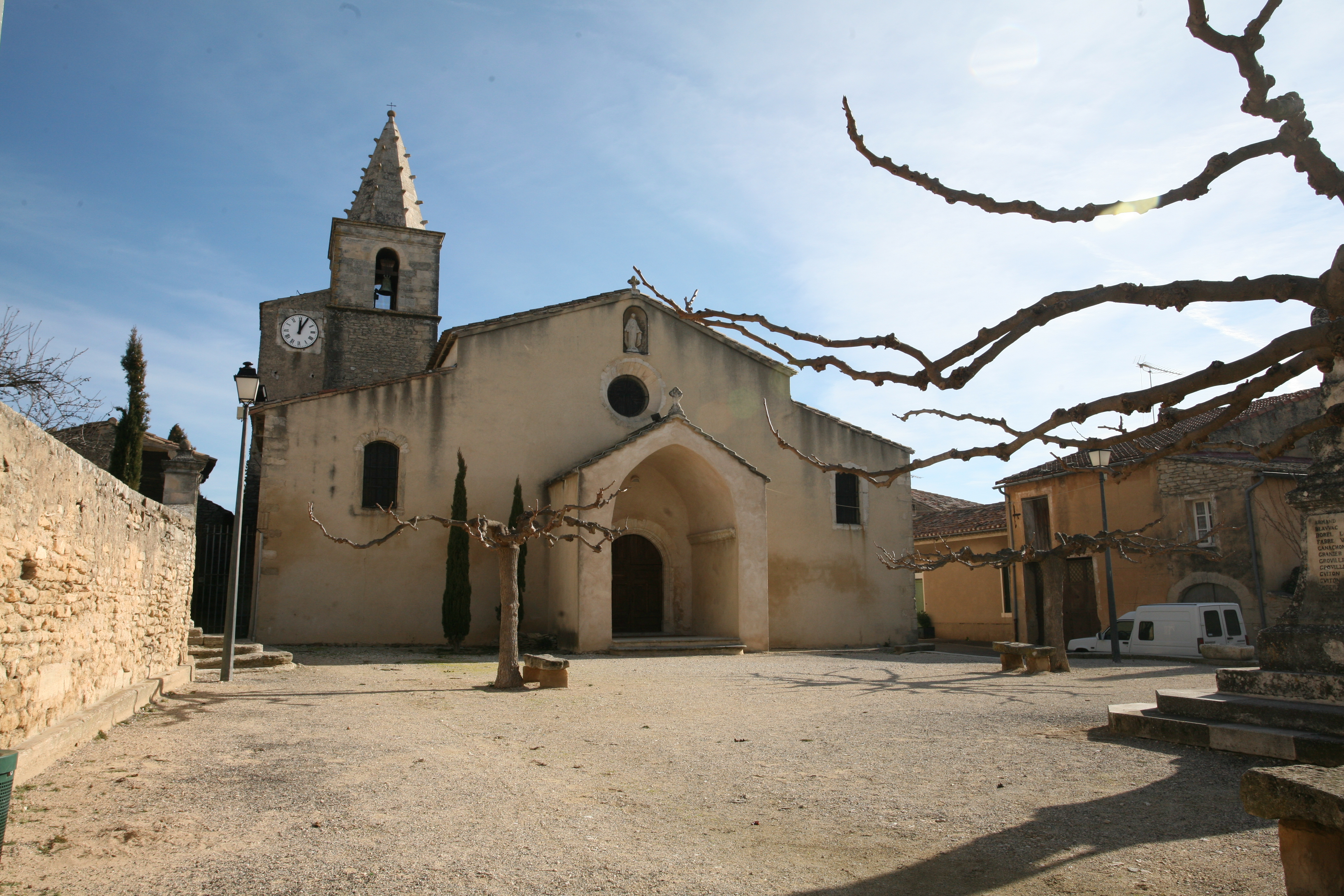 the curch of Cabrieres d'Avignon in Vaucluse, France